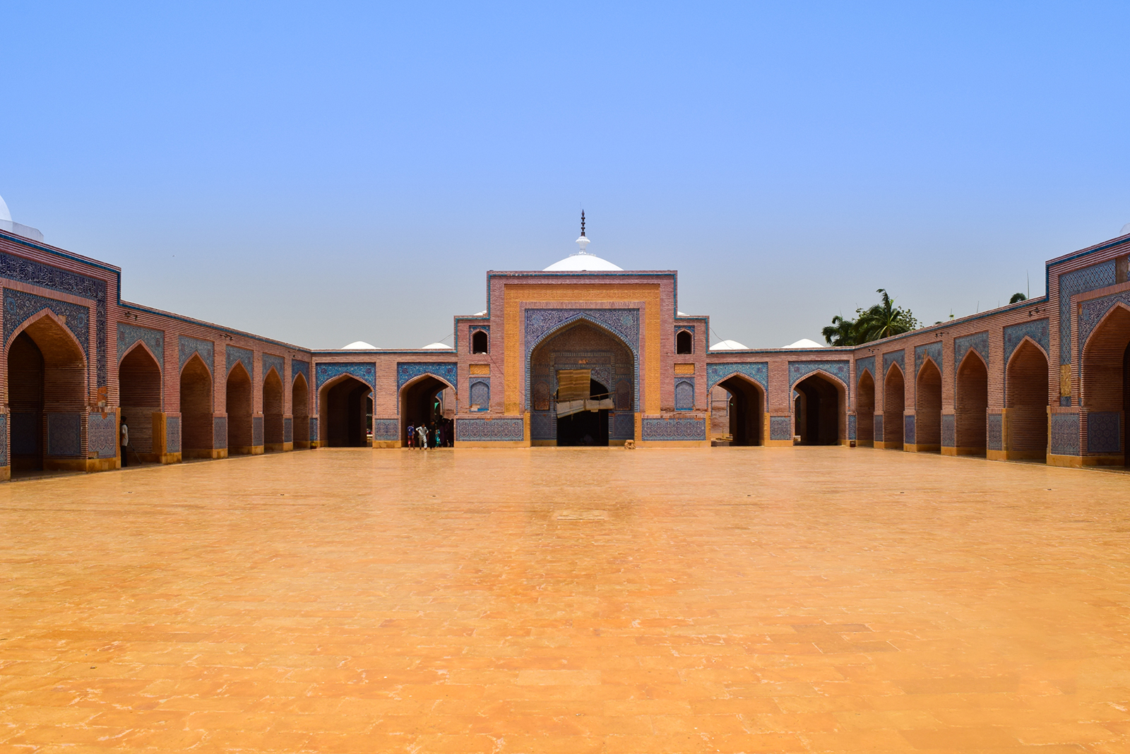 A view from the inner center of the Shah Jahan Mosque situated in the archaeological city of Thatta, Sindh This is a photo of a monument in Pakistan identified as the SD-90